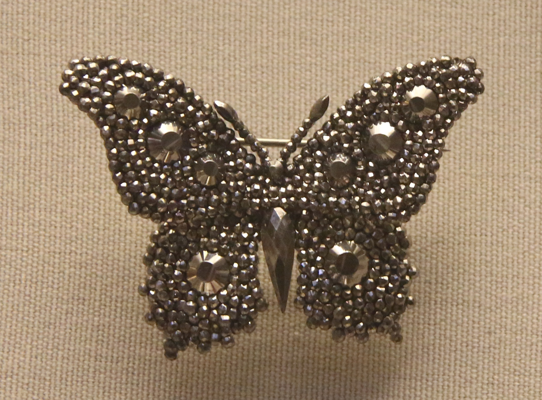 Photo of a cut steel hairpin in the shape of a butterfly